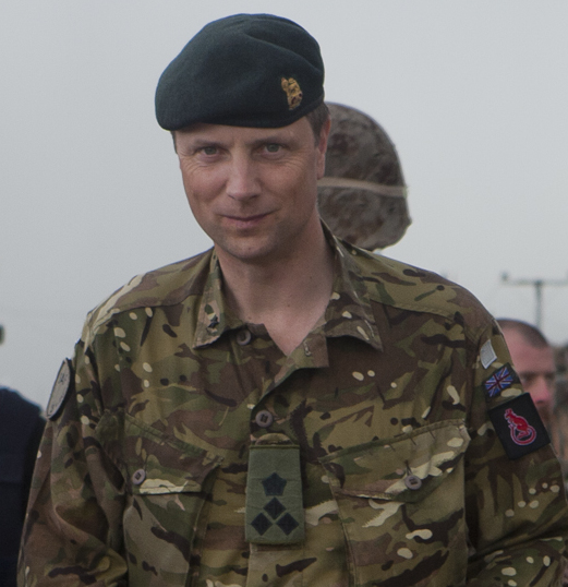 Haji Manaf Khan, district governor of Nawah, British Army Brigadier Nicholas Welch, deputy commander, Regional Command (Southwest), U.S. Marine Corps Lieutenant Col. John Evans, commanding officer, 2nd Battalion, 3rd Marines, and other military and Afghan Nationals tour a local bazaar, or marketplace, in Nawah, Afghanistan, May 4, 2011. Brigadier Welch traveled from Camp Leatherneck, Afghanistan to perform a District Deep Dive and collaborate with Afghan National leaders and discuss progress and issues in the Nawah District area of operations. (U.S. Marine Corps photo by Sgt. Mallory S. VanderSchans/Released)